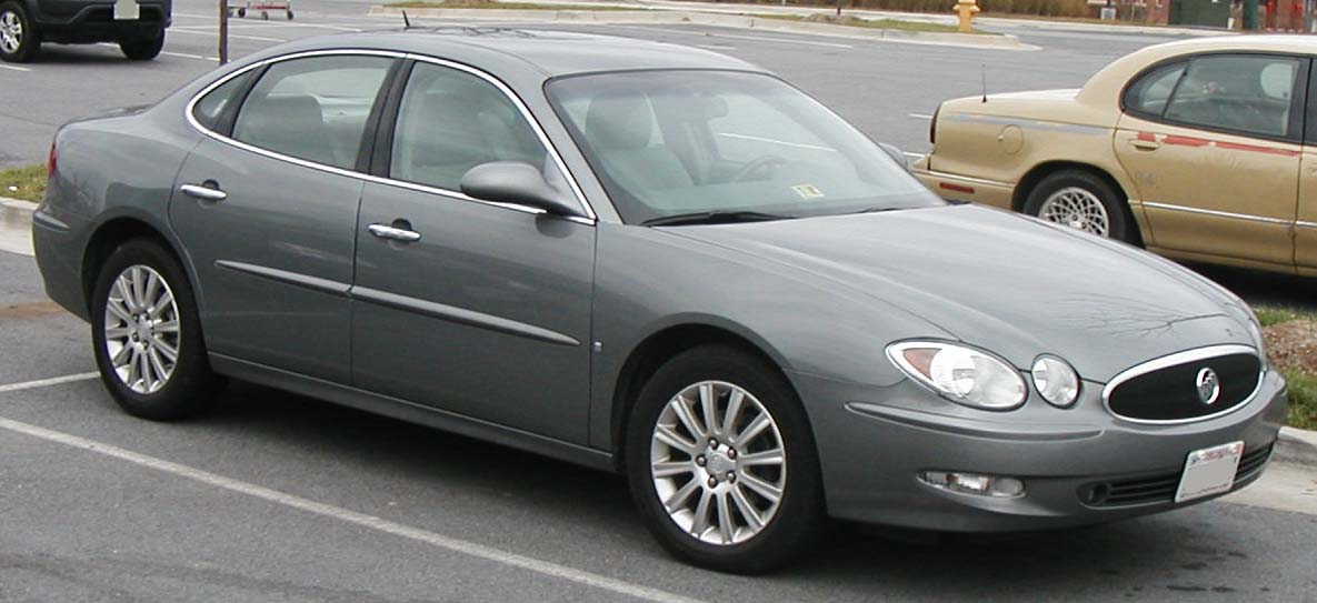 2005-2007 Buick LaCrosse photographed in USA.